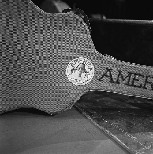 America in AVRO's TopPop (Dutch television show) in 1972